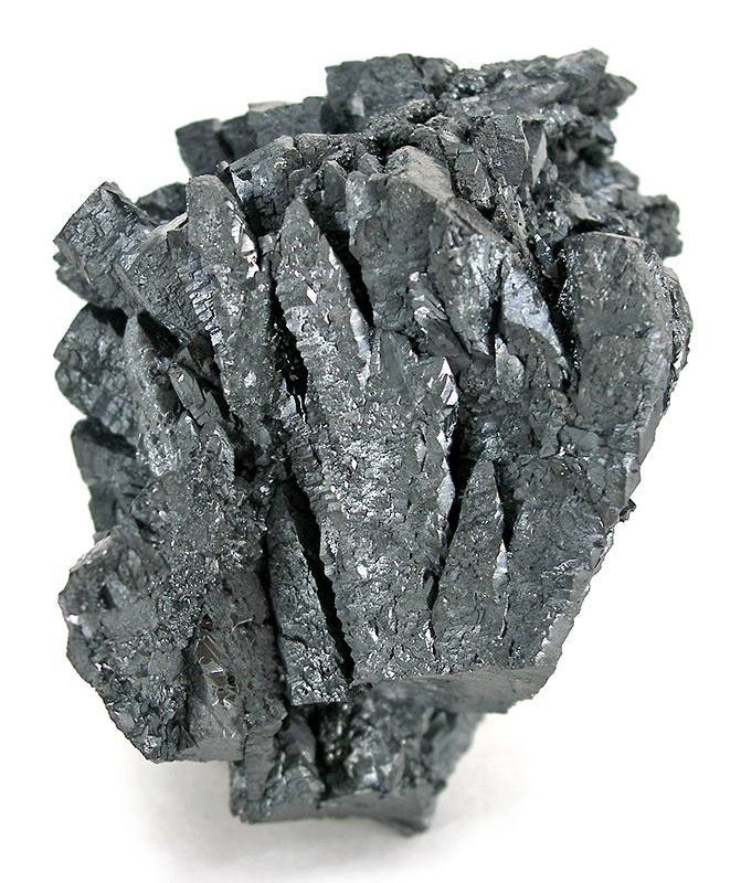 Manganite Locality: Wessels Mine (Wessel's Mine), Hotazel, Kalahari manganese fields, Northern Cape Province, South Africa (Locality at ) An elegant cluster of unusual, thick, blocky manganite crystals splayign like a flower. Gray and color-challenged, yes, but still a pretty darned good manganite especially for a manganese mine that produces few manganite specimens! Complete on 3 sides, sawed flat on the back 4.3 x 4.0 x 2.5 cm